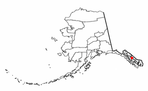 Adapted from Wikipedia's AK borough maps by Seth Ilys.